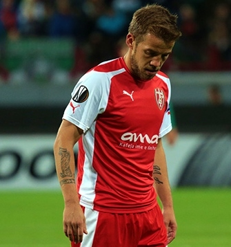 Marko Radas